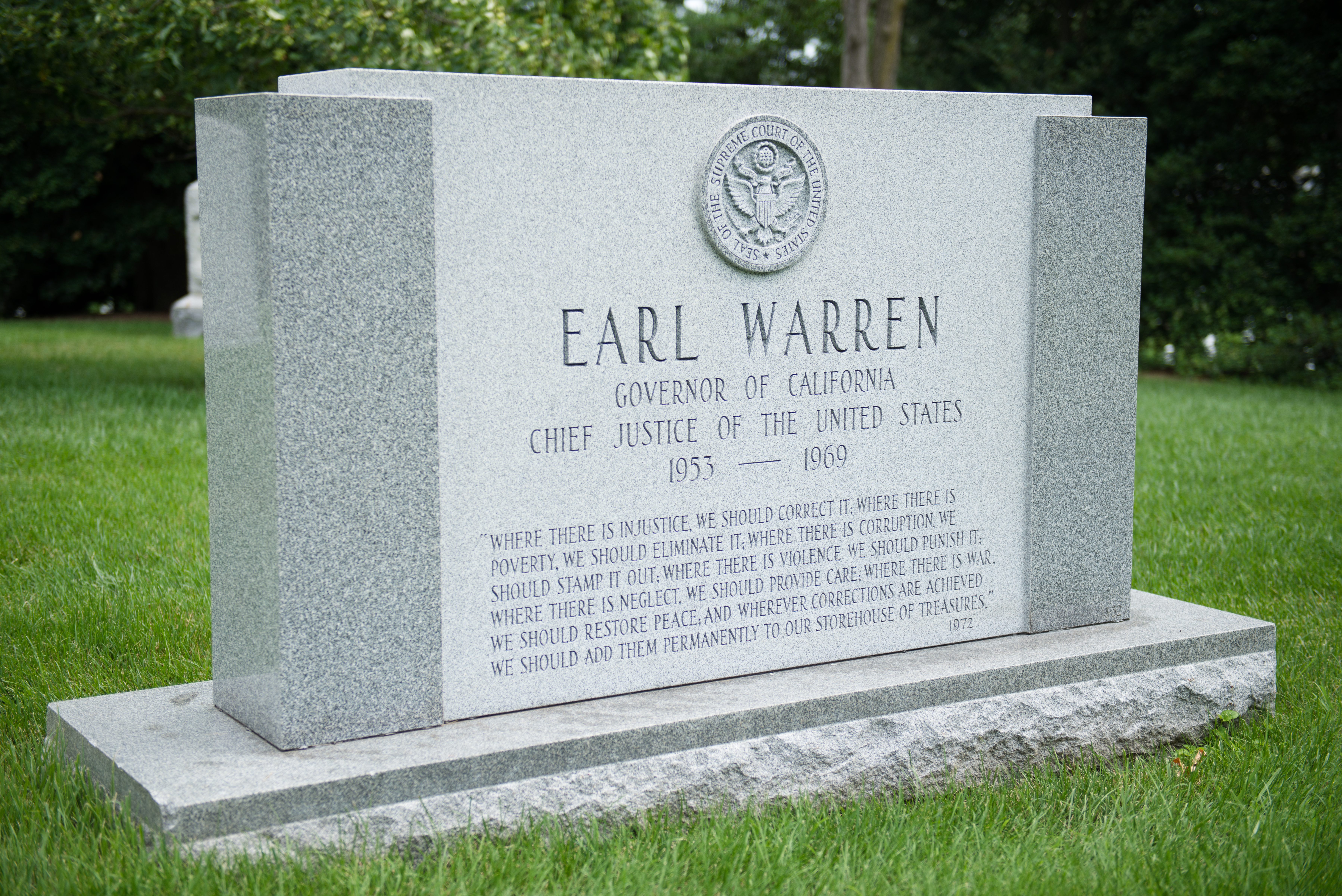 Chief Justice Earl Warren, Section 21, Grave S-32 of Arlington National Cemetery, was governor of California in 1942 and was twice re-elected. In 1953, Pres. Dwight D. Eisenhower named Warren as chief justice of the United States. (U.S. Army photo by Rachel Larue/released)